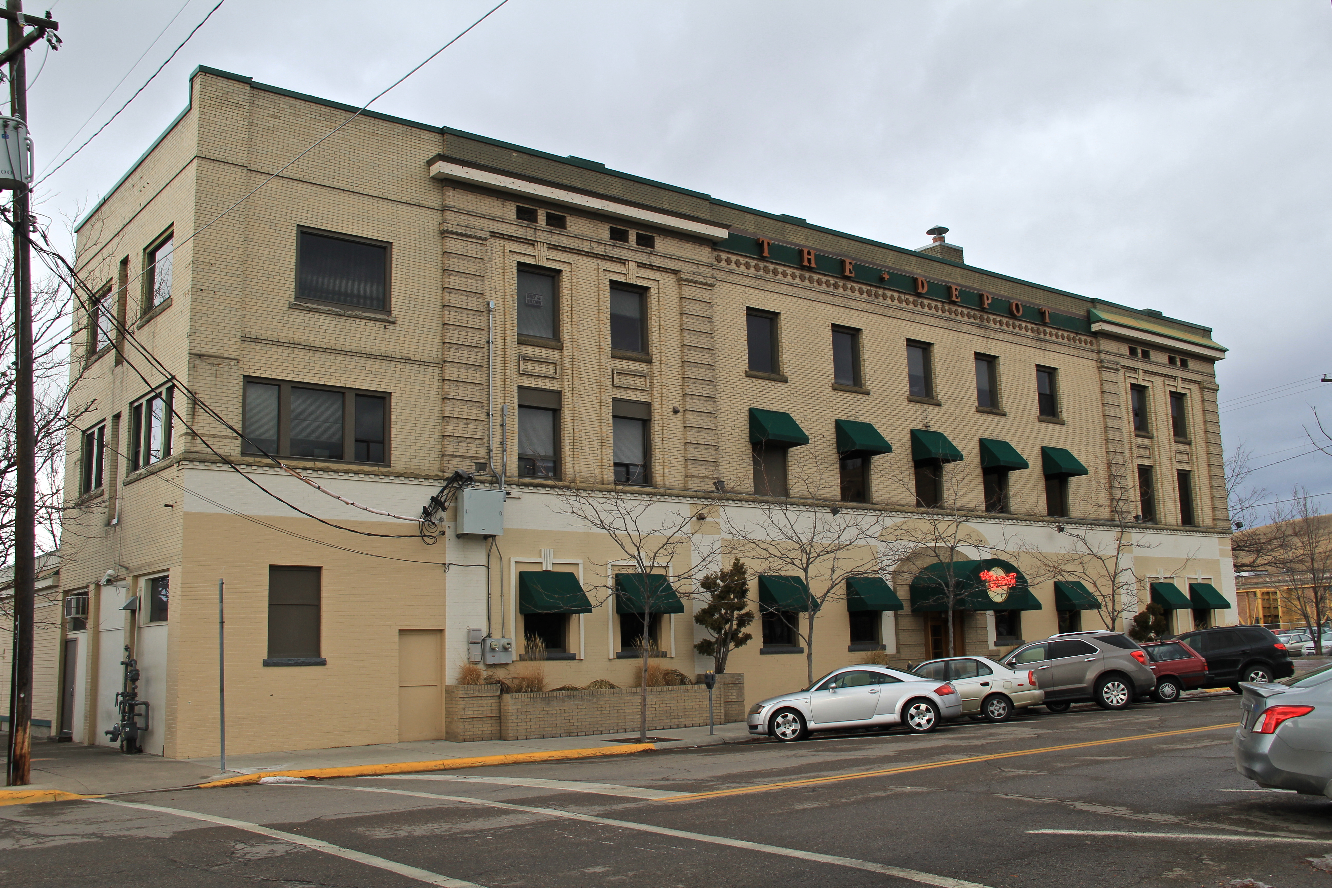 The Depot, Missoula, Montana, 2014. A bar stool here is dedicated to writer James Crumley.